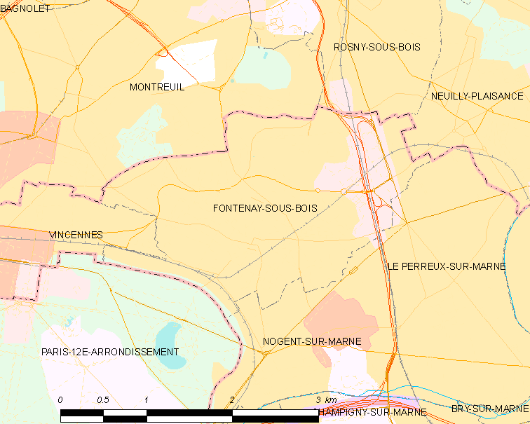 Map of French municipality Fontenay-sous-Bois